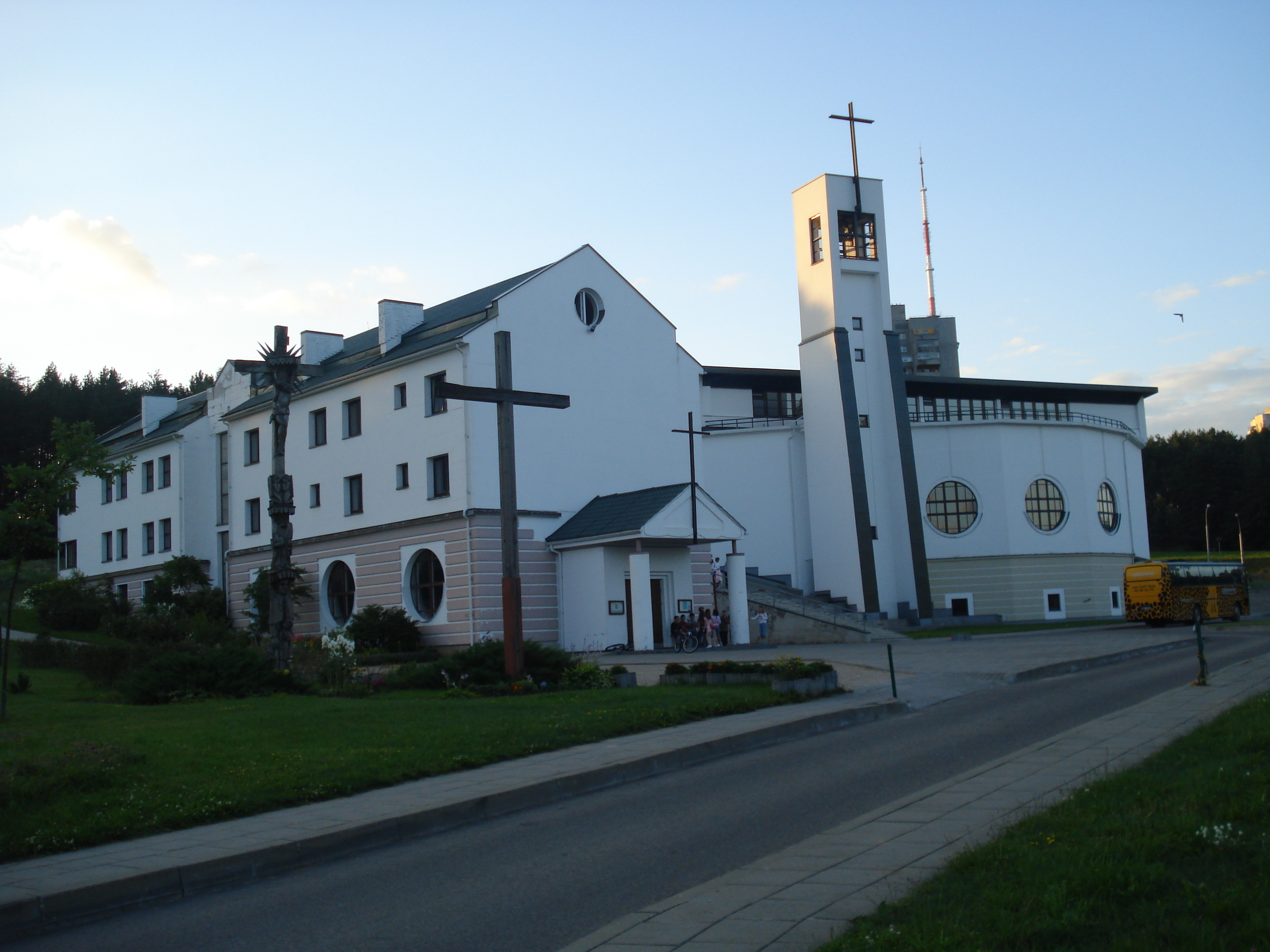 The church of St. John Bosco (Giovanni Melchiorre Bosco) in Vilnius. Vilniaus Šv. Jono Bosko bažnyčia. Erfurto g. 3. Architect prof. Vytautas Edmundas Čekanauskas. 2001